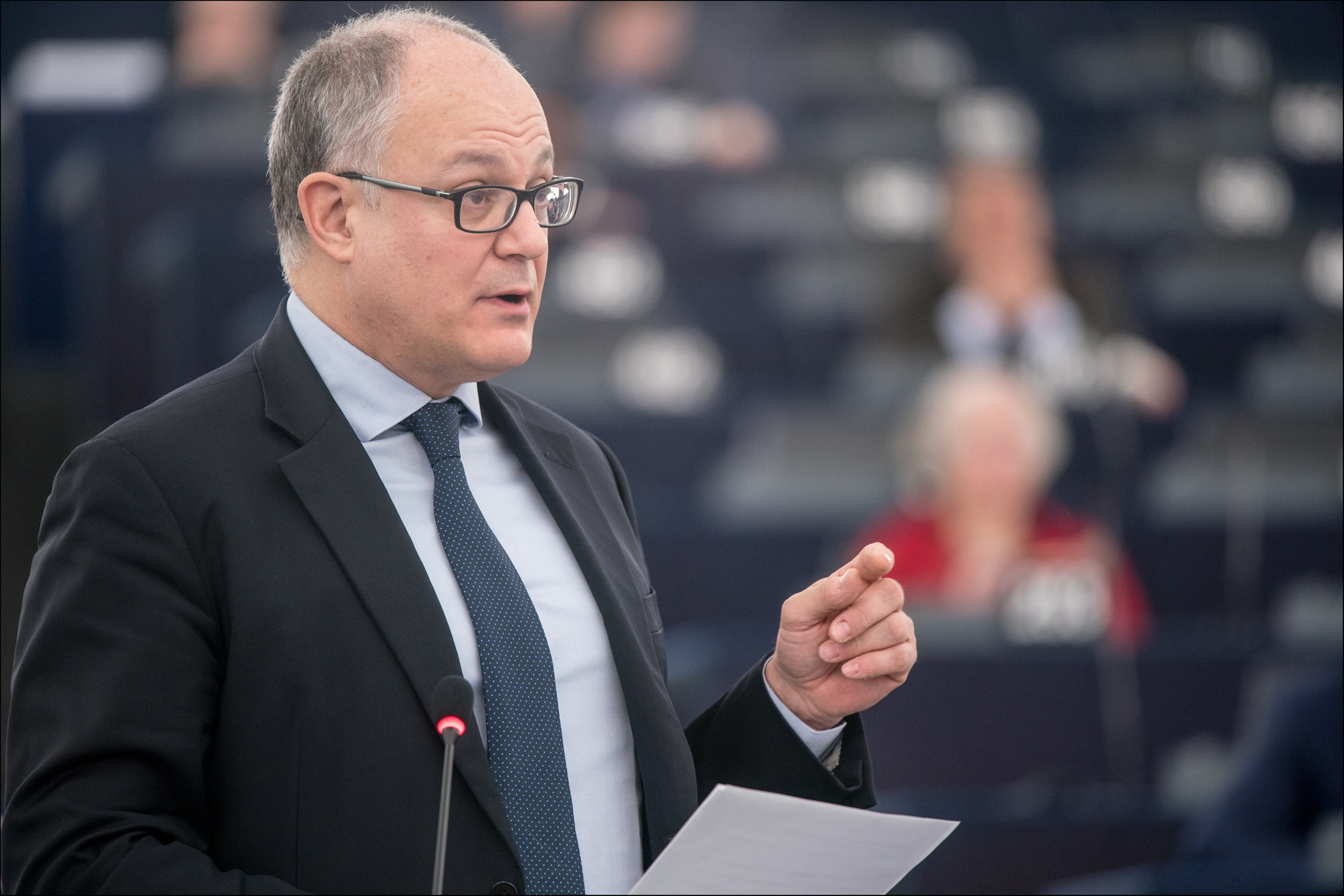 Following the UK parliament's rejection of the Brexit deal in a vote last evening, members of the European Parliament have underlined that the EU will remain united and that citizens’ rights are Europe's priority. Speaking in a debate in Parliament today, Commission Vice-President Frans Timmermans said commitments on the peace process and the border in Ireland or on citizens’ rights cannot be watered down. Parliament's lead member on Brexit @guyverhofstadt called on UK politicians to build a positive majority to break the Brexit deadlock. READ MORE ►► This photo is free to use under Creative Commons license CC-BY-4.0 and must be credited: "CC-BY-4.0: © European Union 20XY – Source: EP". No model release form if applicable. For bigger HR files please contact: webcom-flickr(AT)